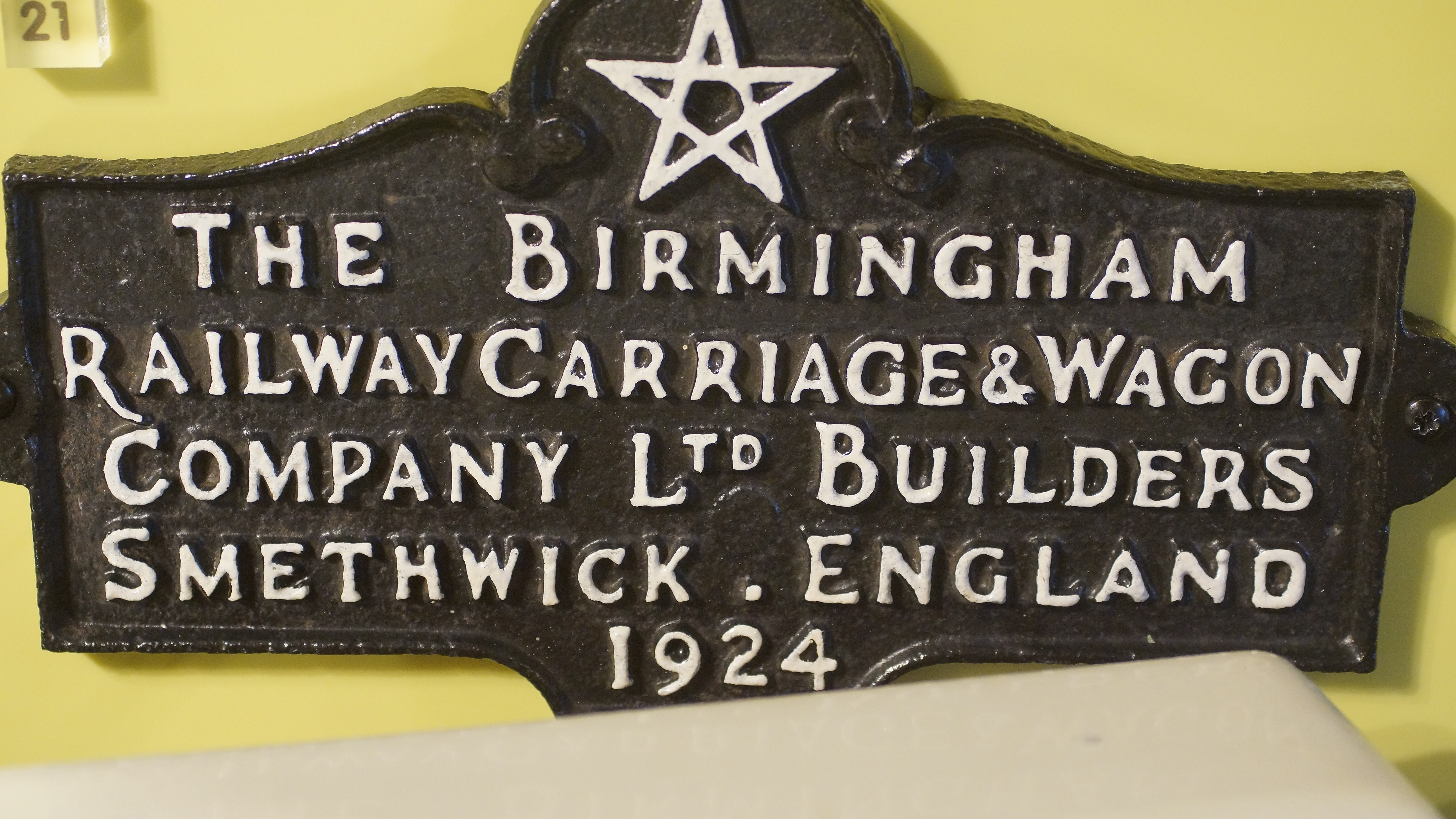 Images from ThinkTank by Sasha Taylor